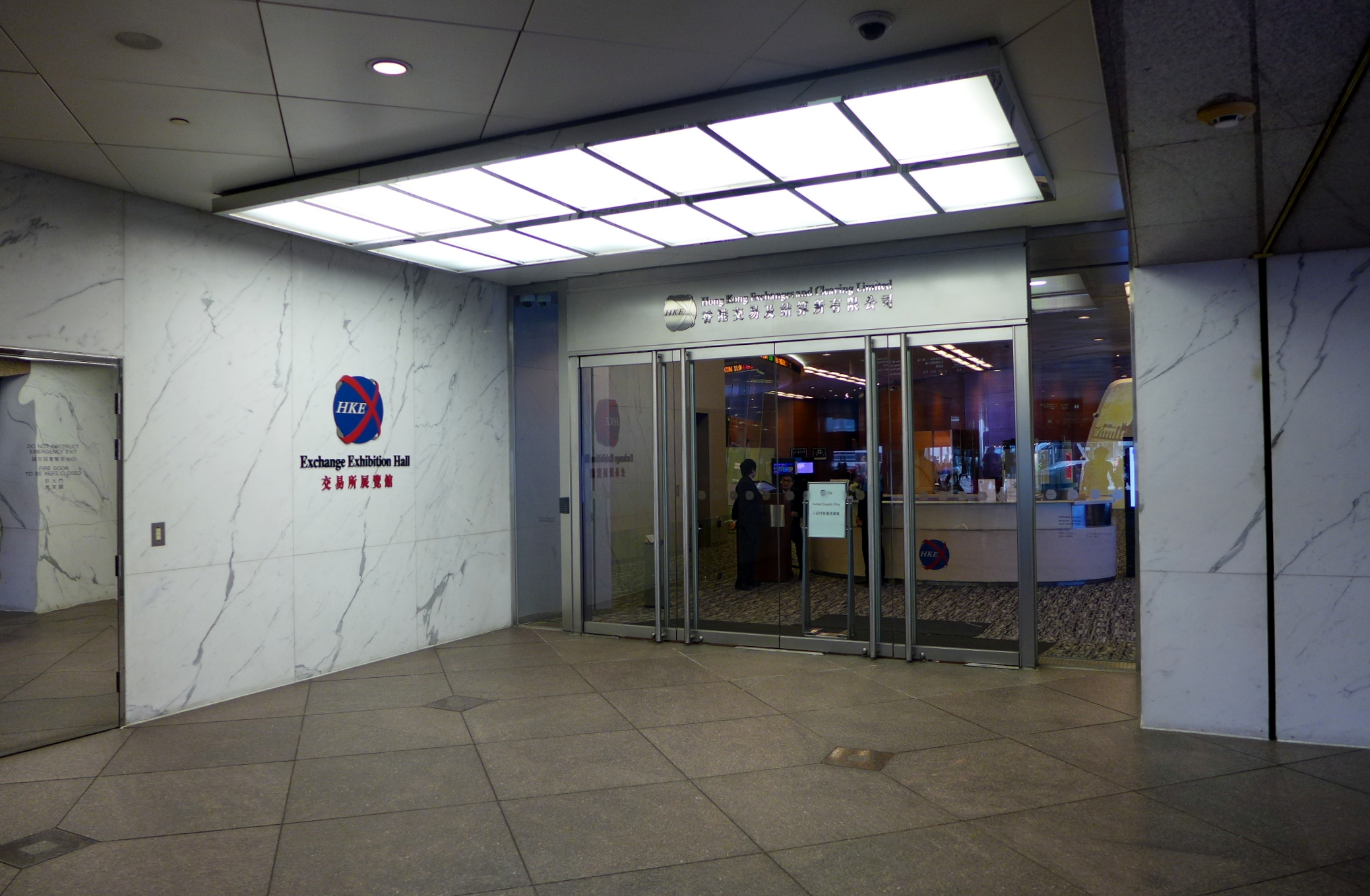 Exchange Exhibition Hall Entrance